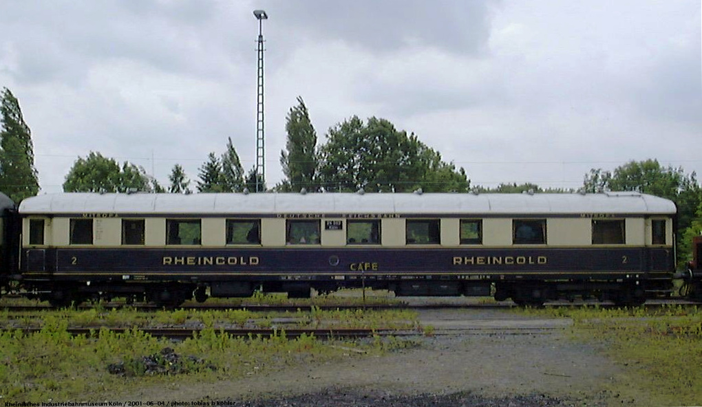 Photo of a carriage of Rheingold Express of 1928, taken in Rheinisches Industriebahnmuseum Cologne